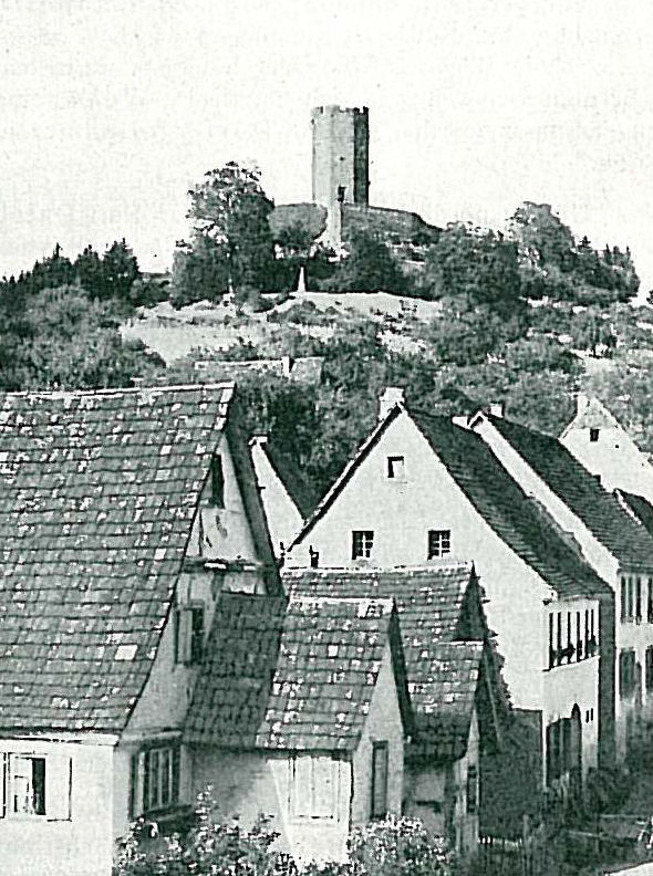 historical view of Steinsberg